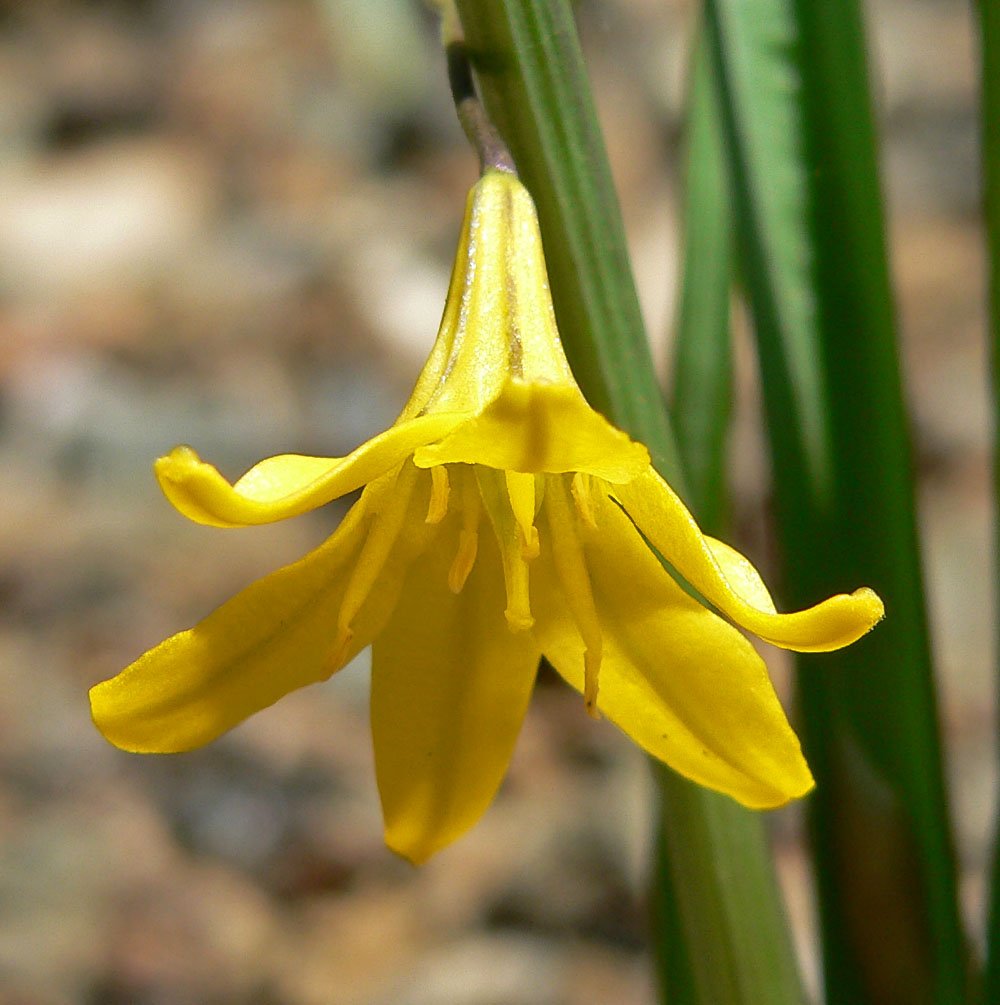 Triteleia crocea var. crocea at the University of California Botanical Garden, Berkeley, California